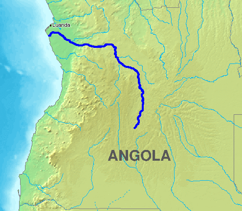 Map of Kwanza river in Angola